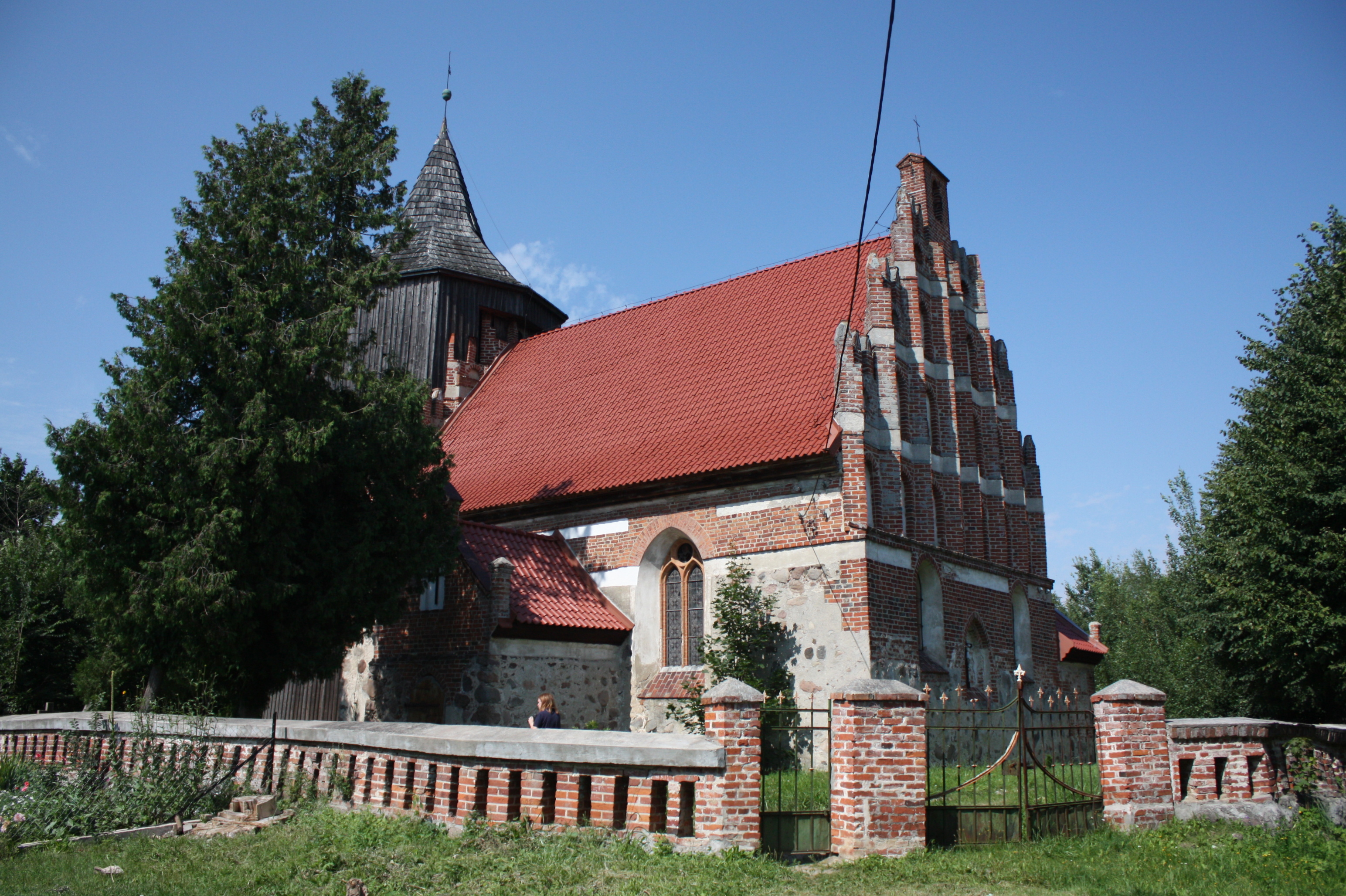 This photo of Warmian-Masurian Voivodeship was taken during Wikiexpedition 2012 set up by Wikimedia Polska Association. You can see all photographs in category Wikiekspedycja 2012. The making of this document was supported by Wikimedia Polska.